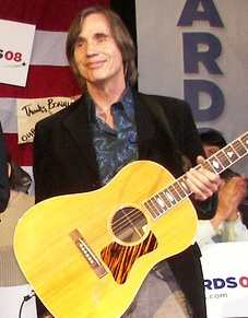 Jackson Browne (cropped from a photo of him on stage with John Edwards)